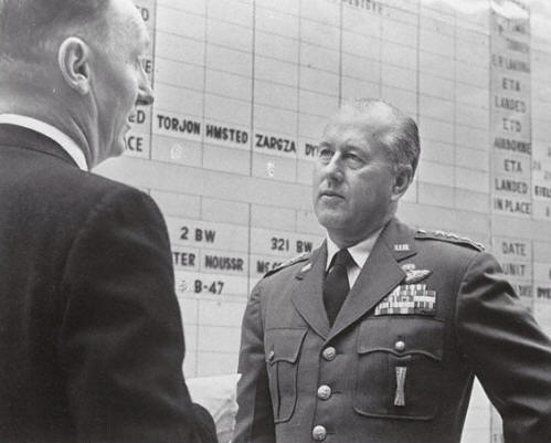 Commanders-in-Chief of The Strategic Air Command General Thomas S. Power at Strategic Air Command Control and Command Center on Strategic Air Command's Headquarters at Offutt Air Force Base, Nebraska on 1957.